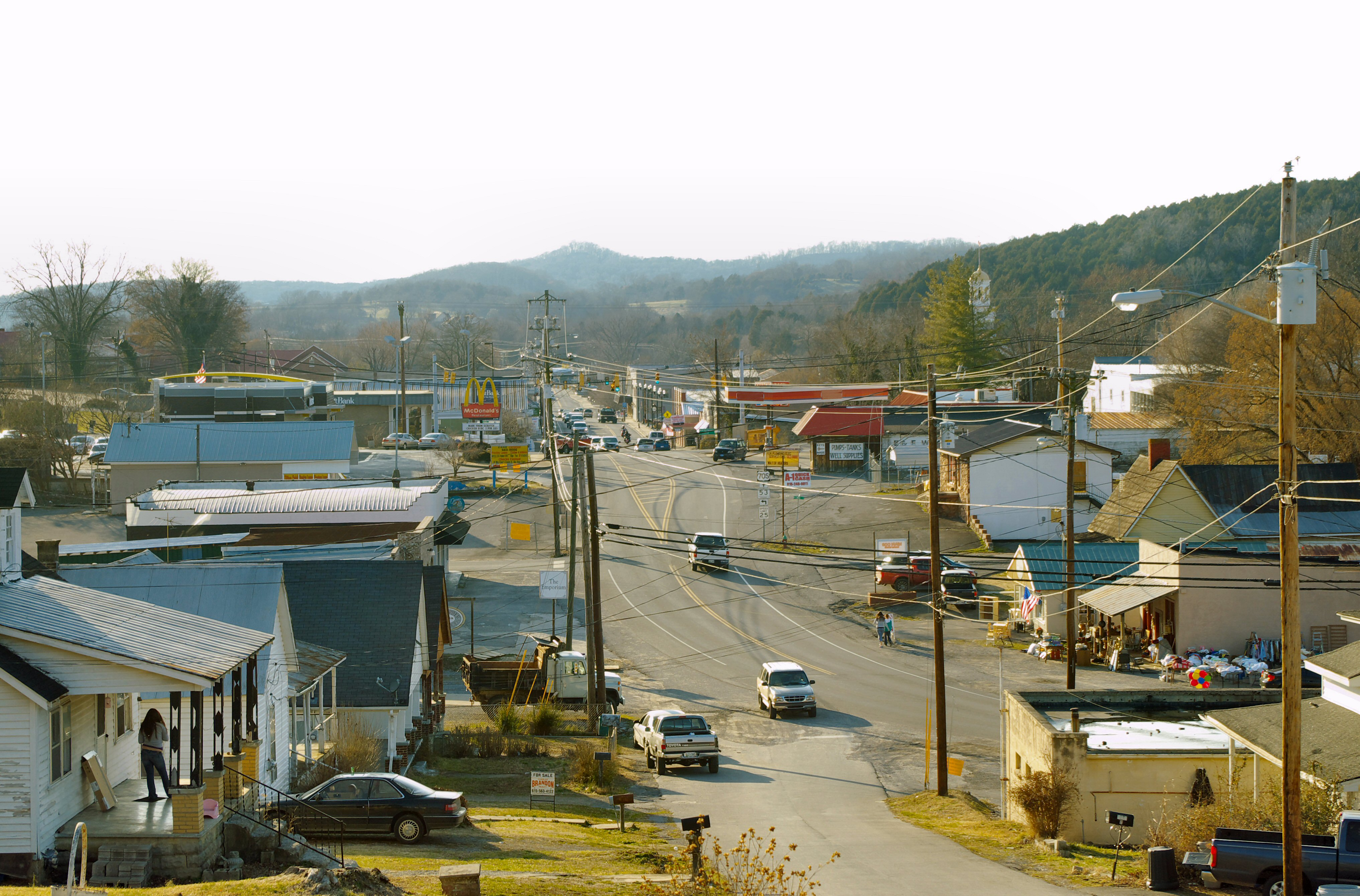 Main Street (US Route 70S) viewed from Summit Street in Woodbury, Tennessee, United States